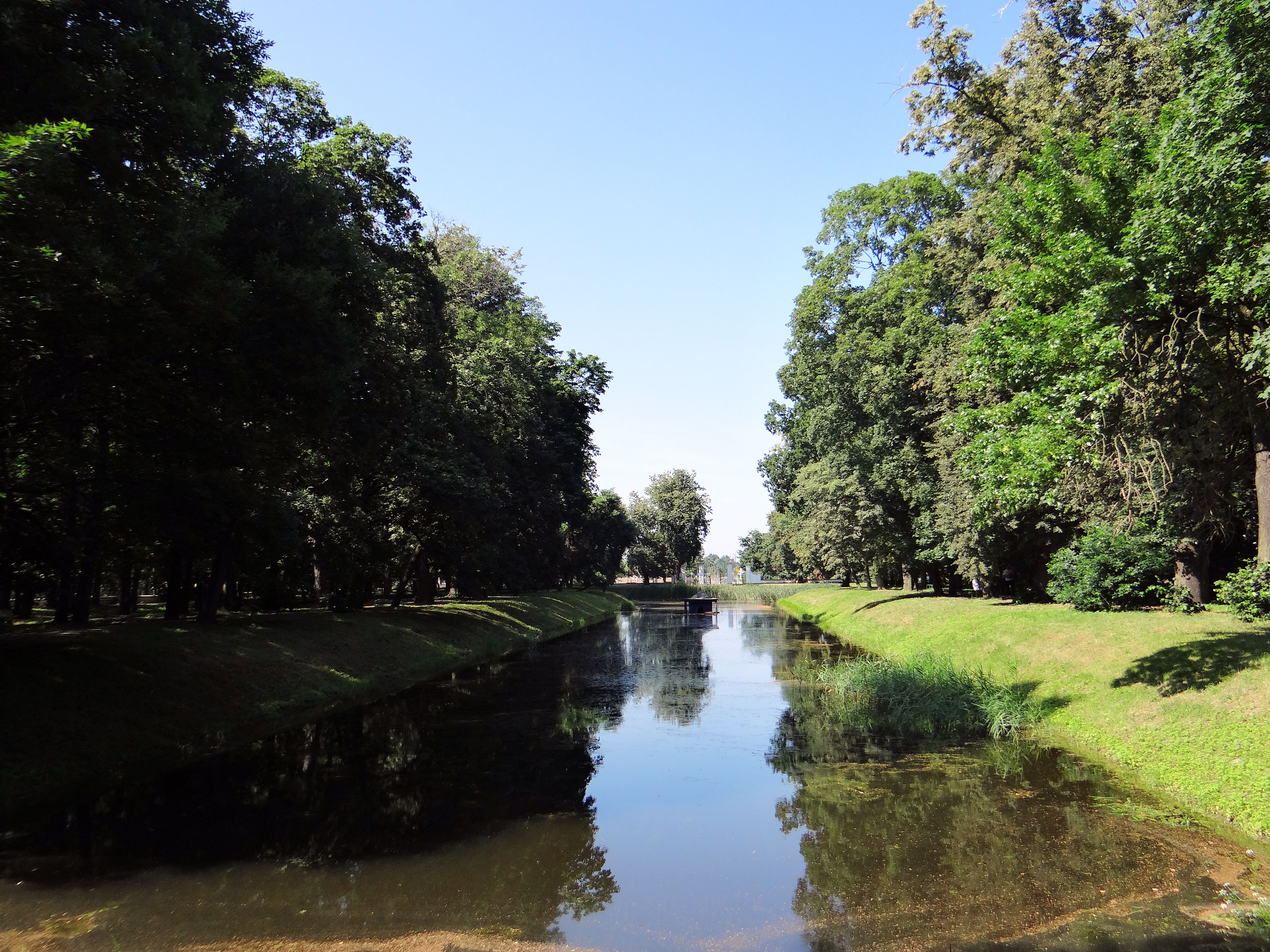 Park of Radzyń Podlaski Palace